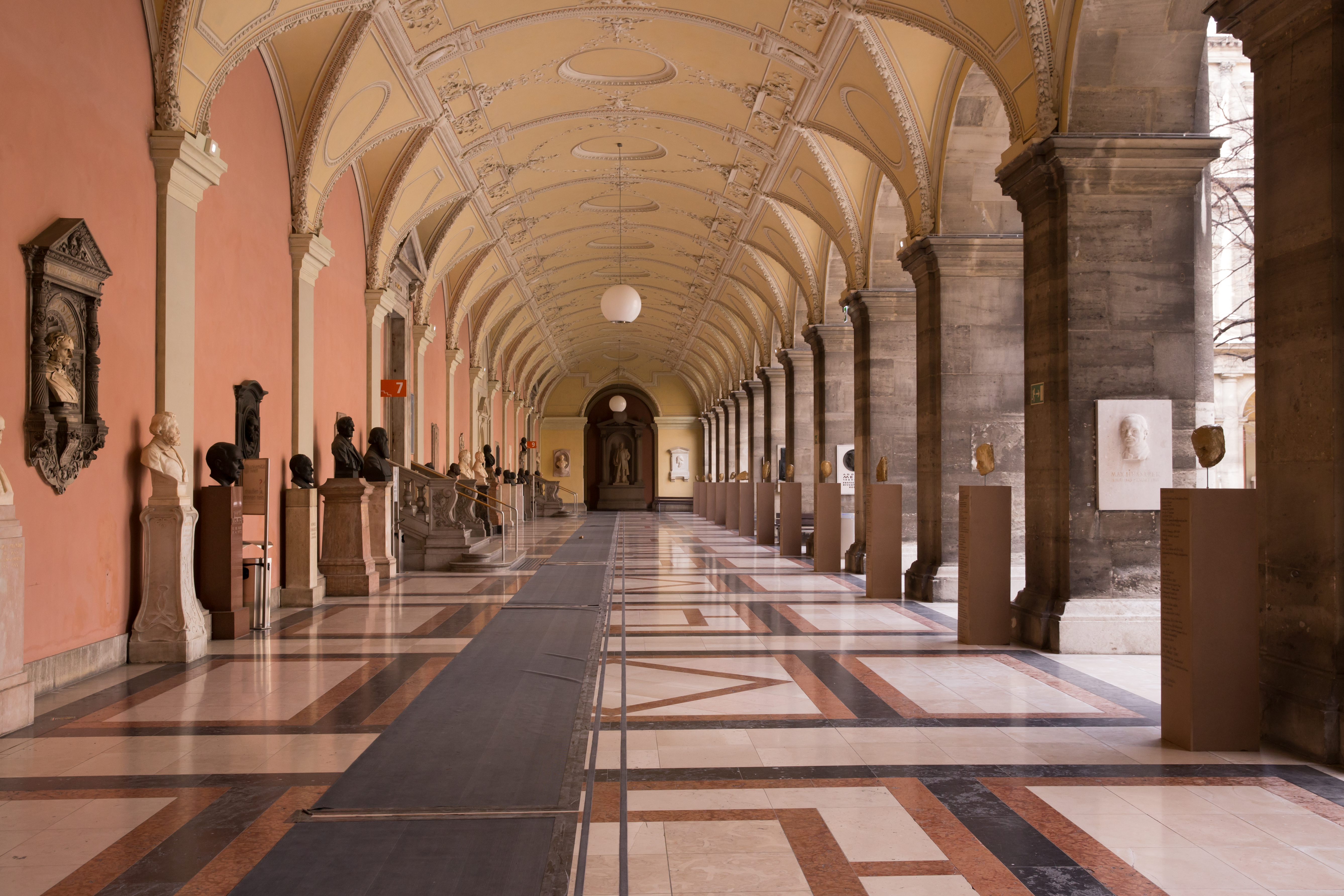 Arkadenhof in the University of Vienna